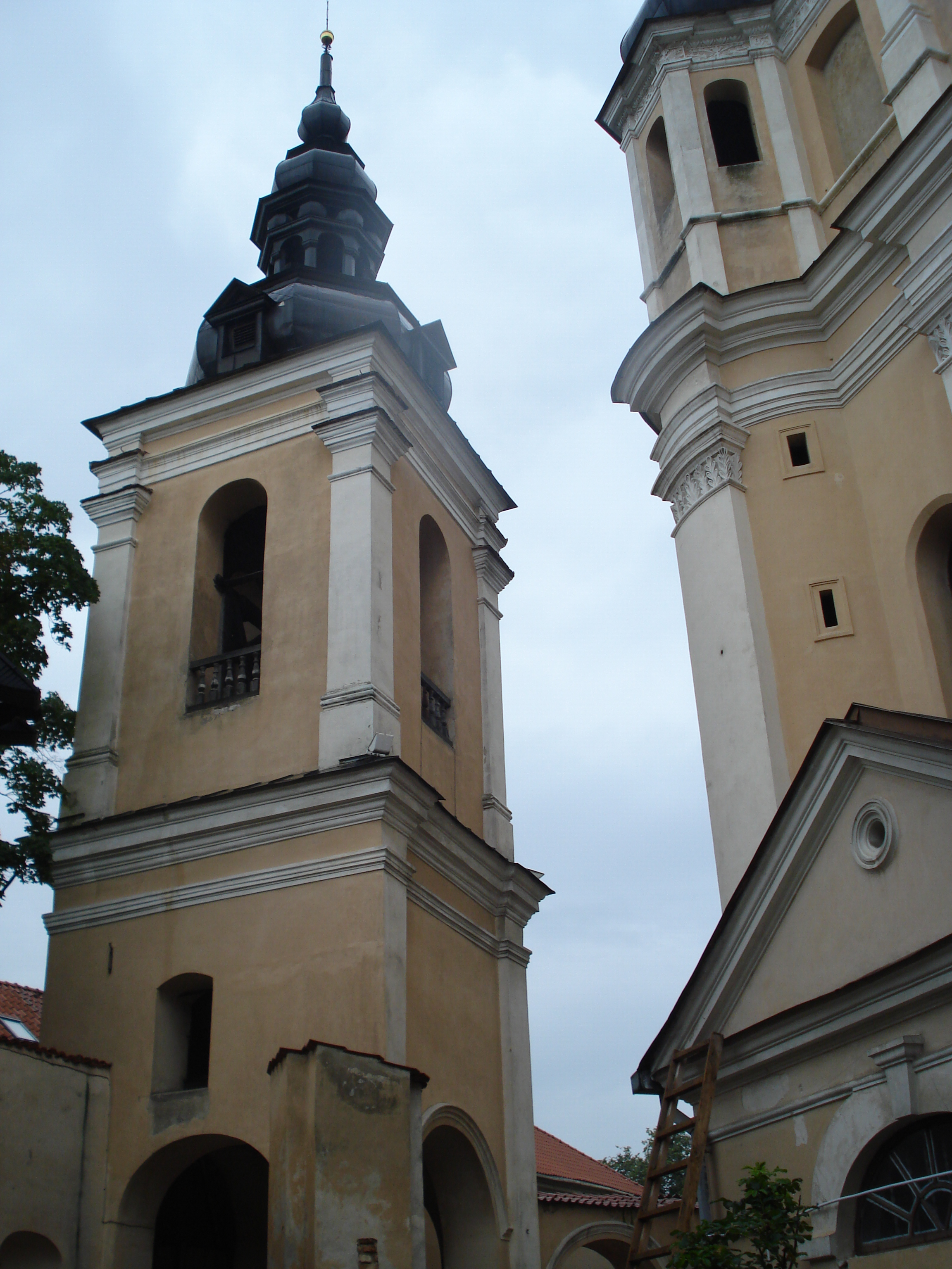 Church of St. Michael in Vilnius. Balltower